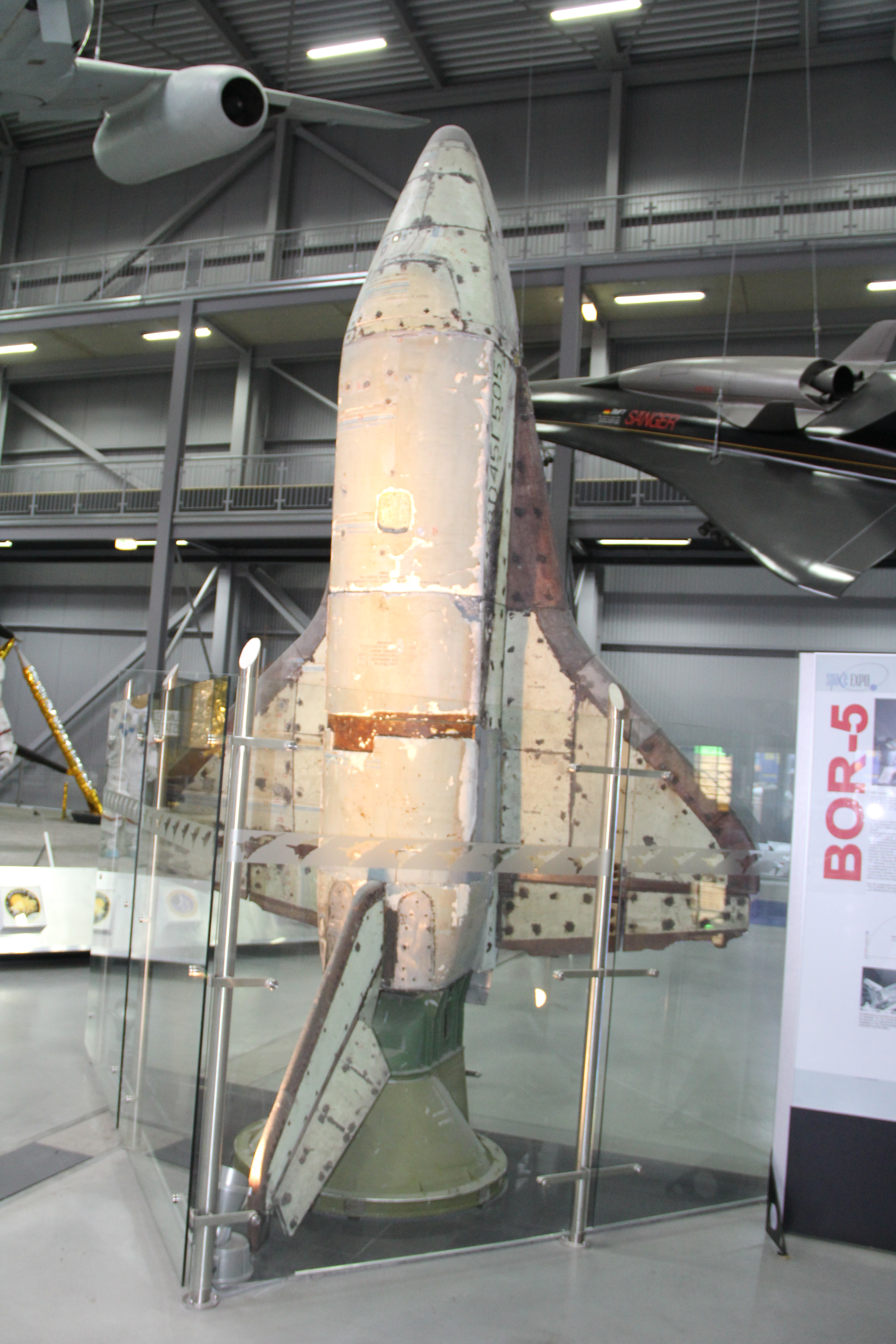 Space Shuttle Buran at the Technik Museum Speyer